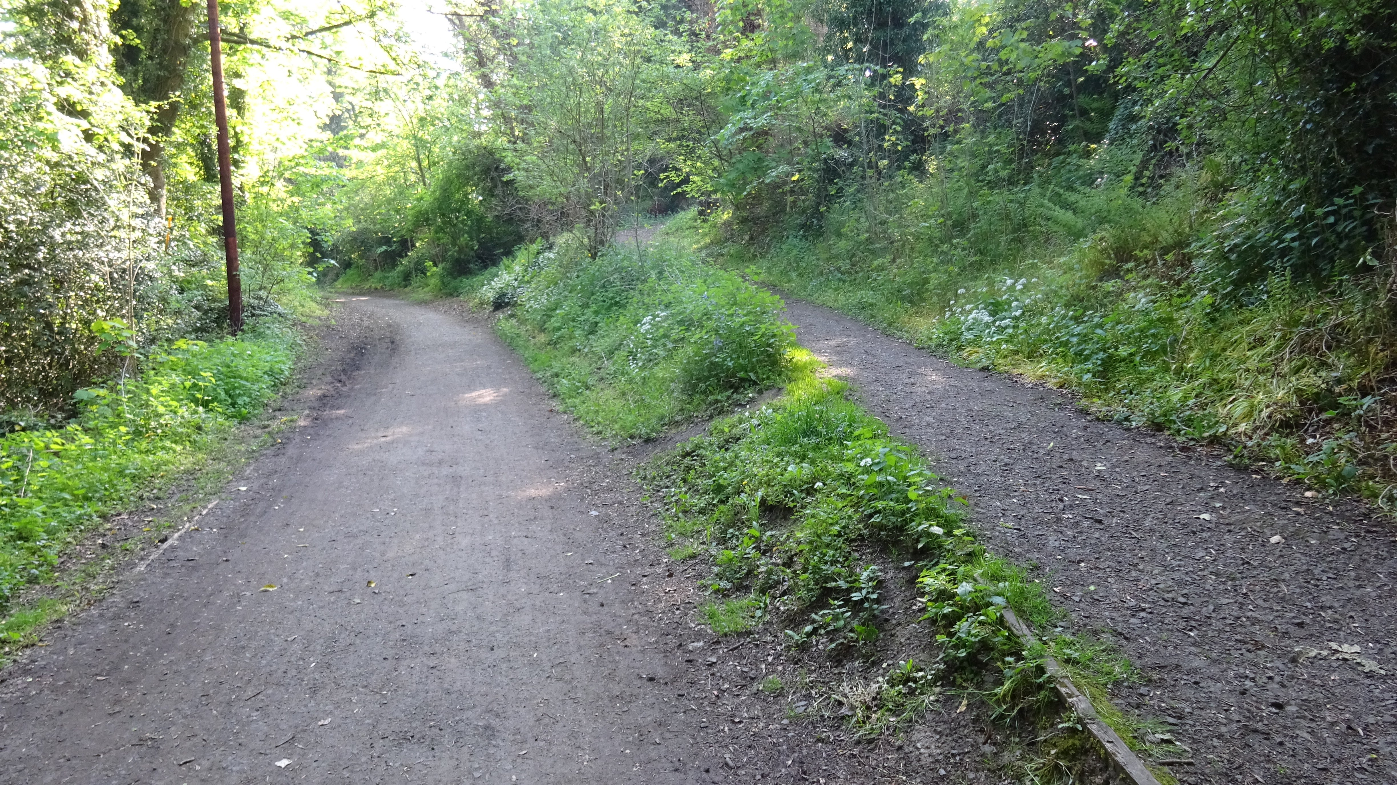 Site of Hailes Halt old railway station, Balerno Loop Line, Midlothian, Scotland. Opened in 1908 and closed in 1943.